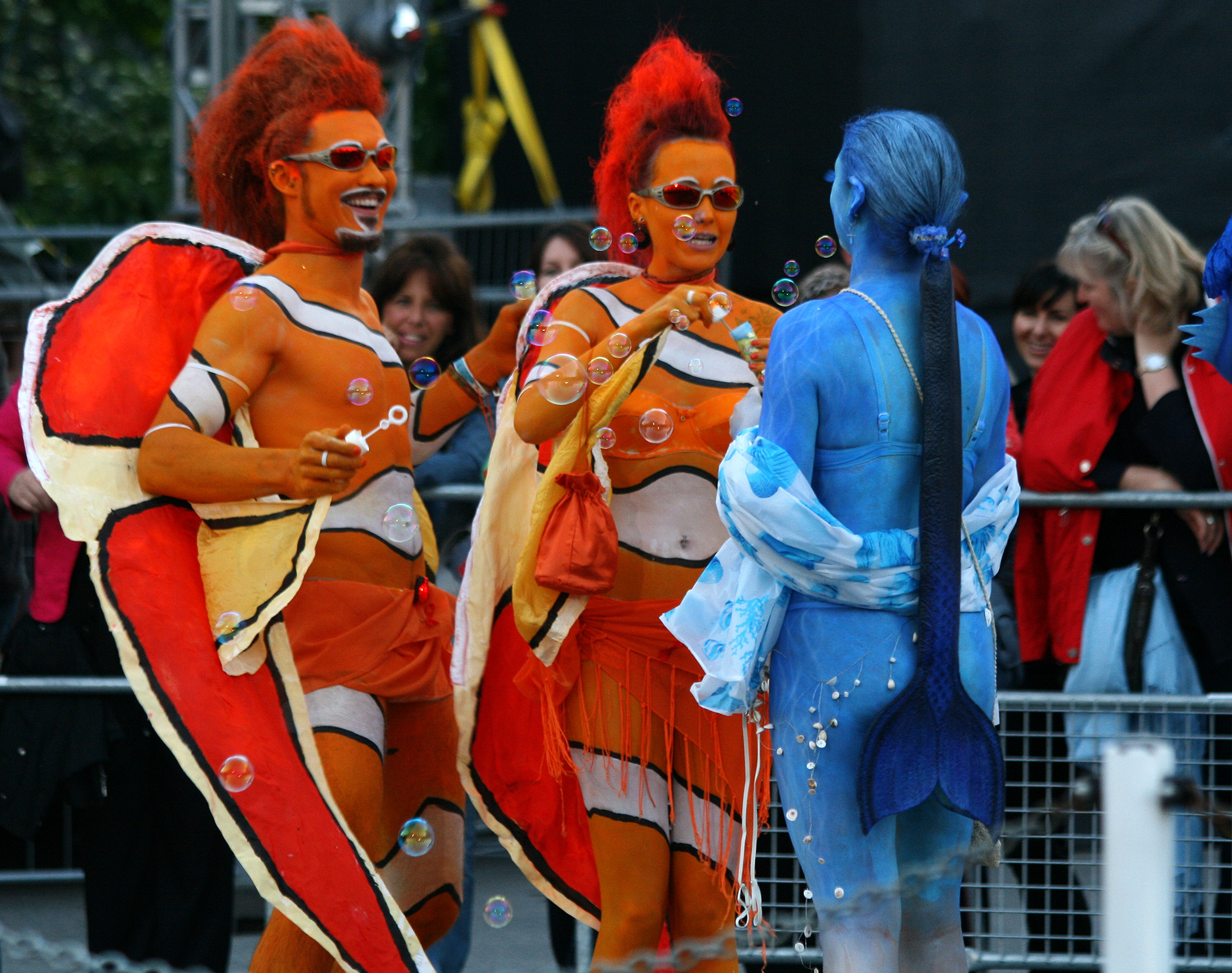 Guests arriving at the Life Ball 2009, Rathaus, Vienna.